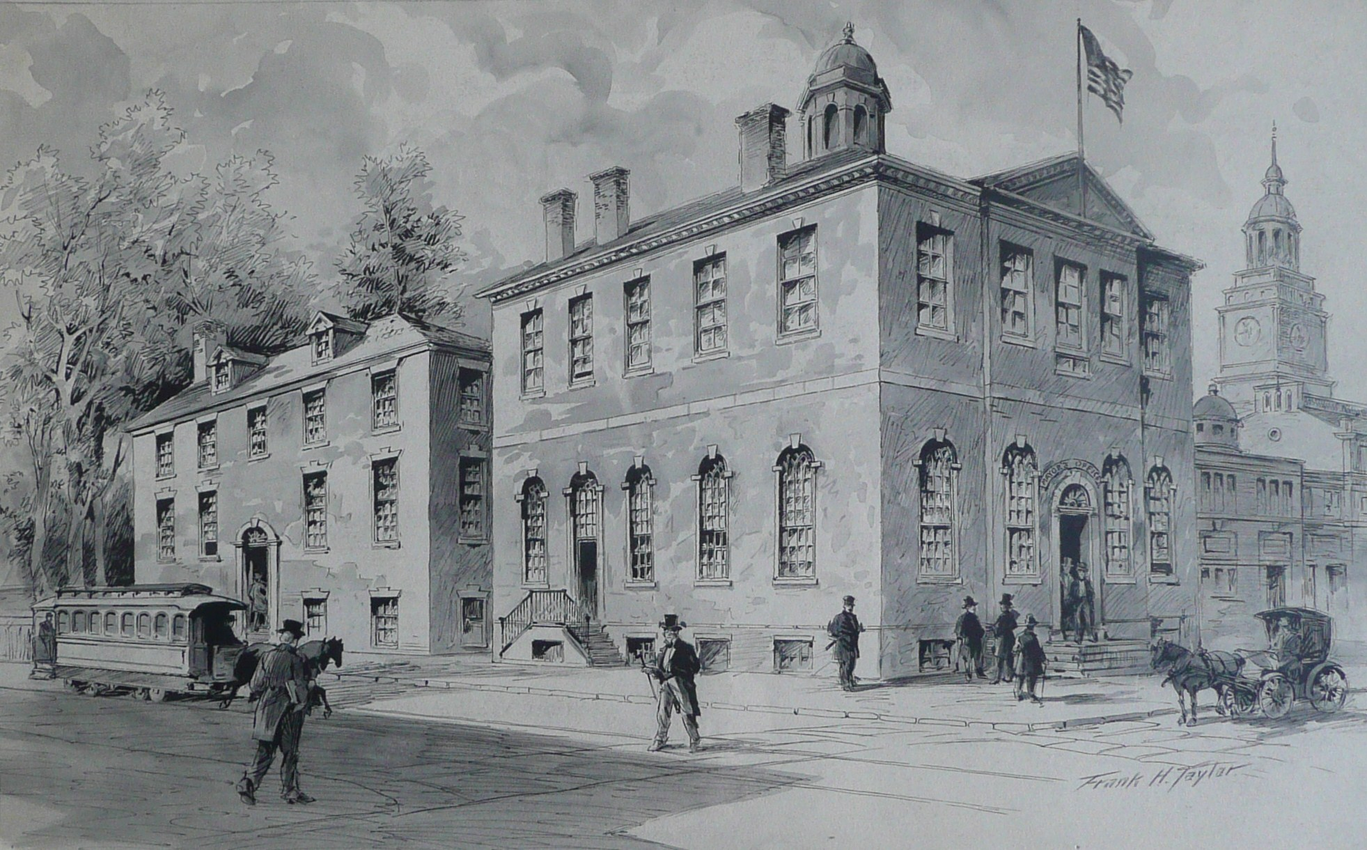 Original watercolor study for "The Old Structure at Fifth and Chestnut Streets and Philosophical Hall", one of Taylor's "Old Philadelphia" prints, showing Philosophical Hall to the left.